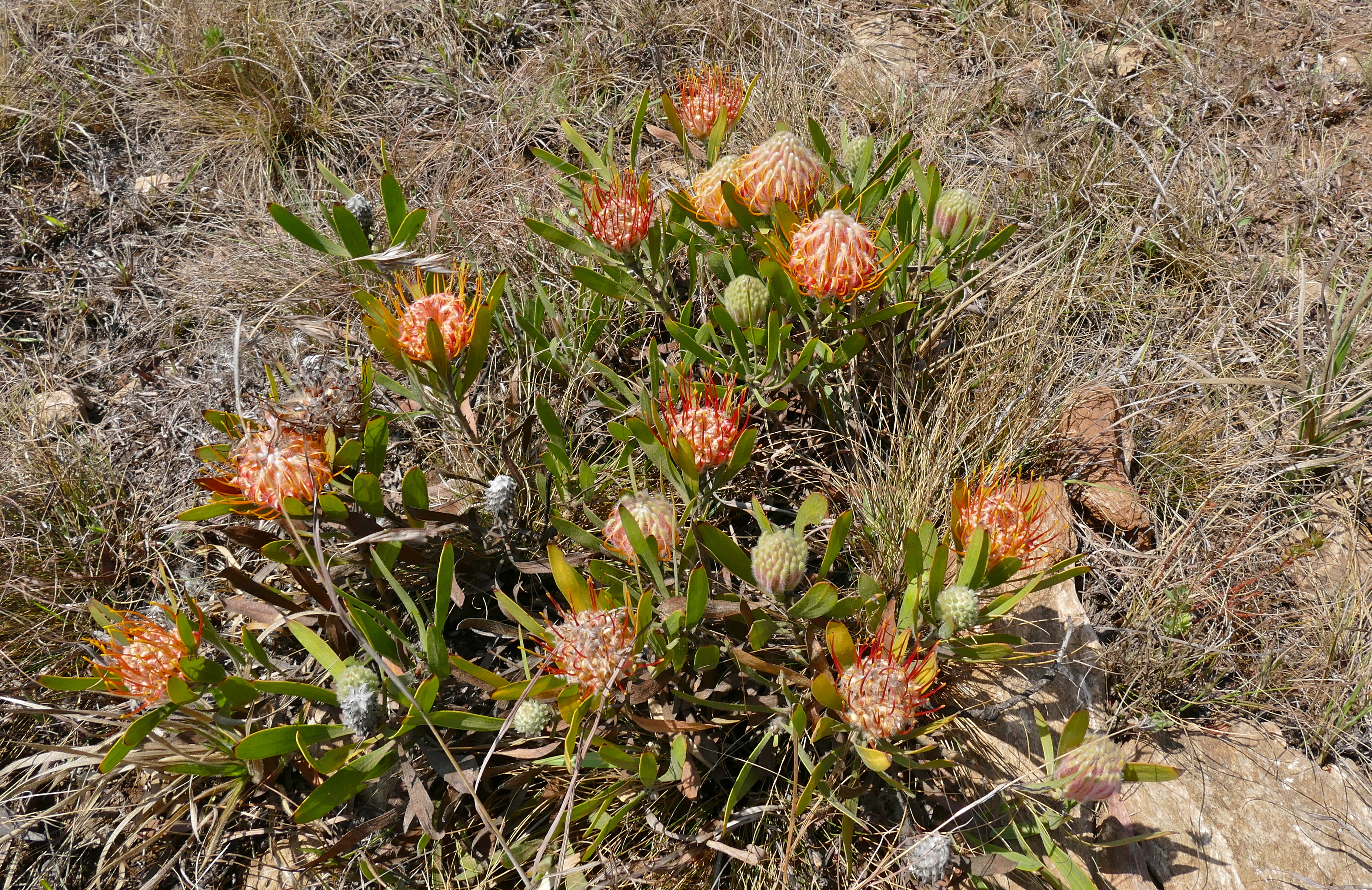 Malolotja Nature Reserve, Eswatini